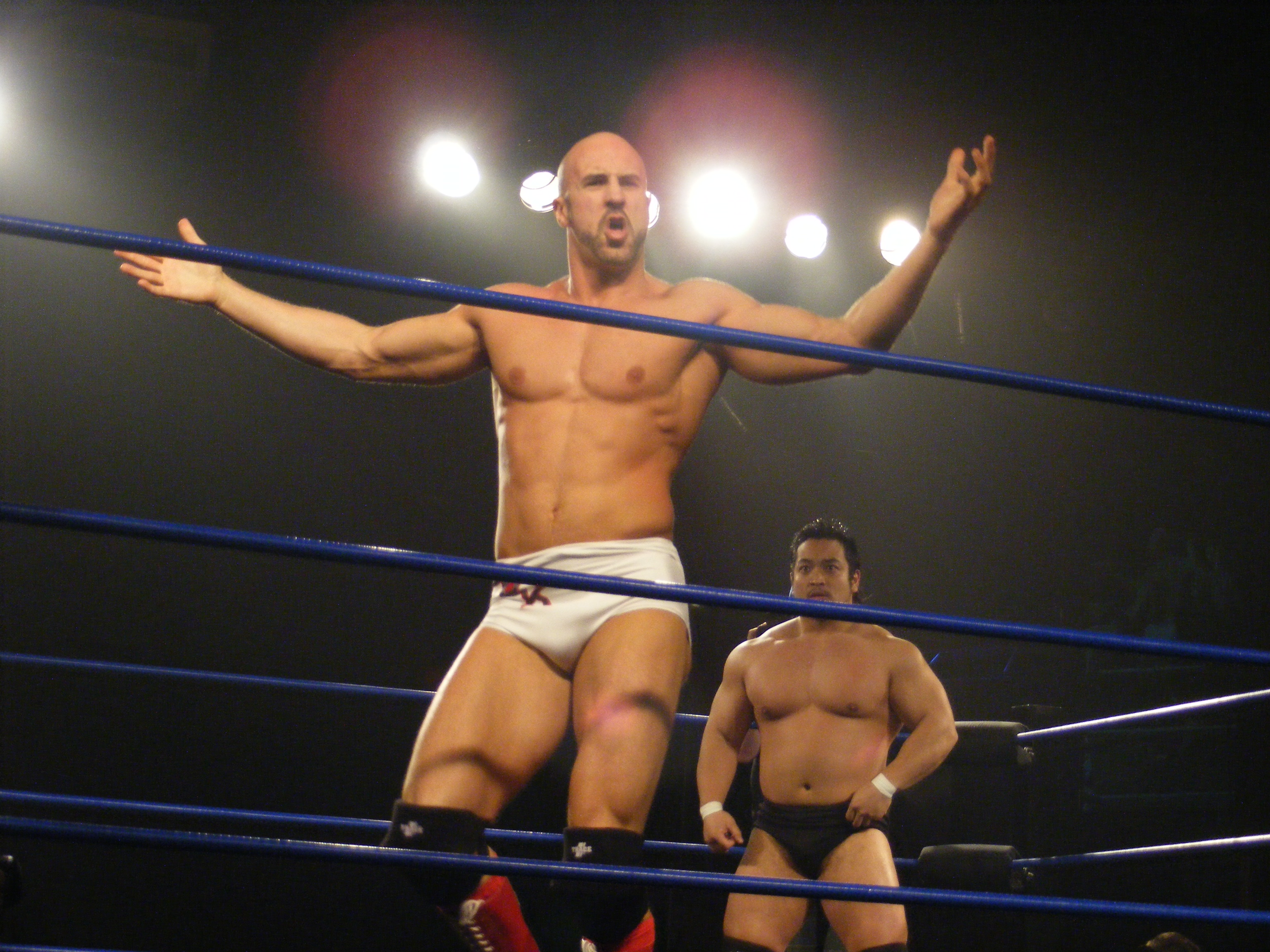 Professional wrestler Claudio Castagnoli at a Chikara show on April 25, 2010.